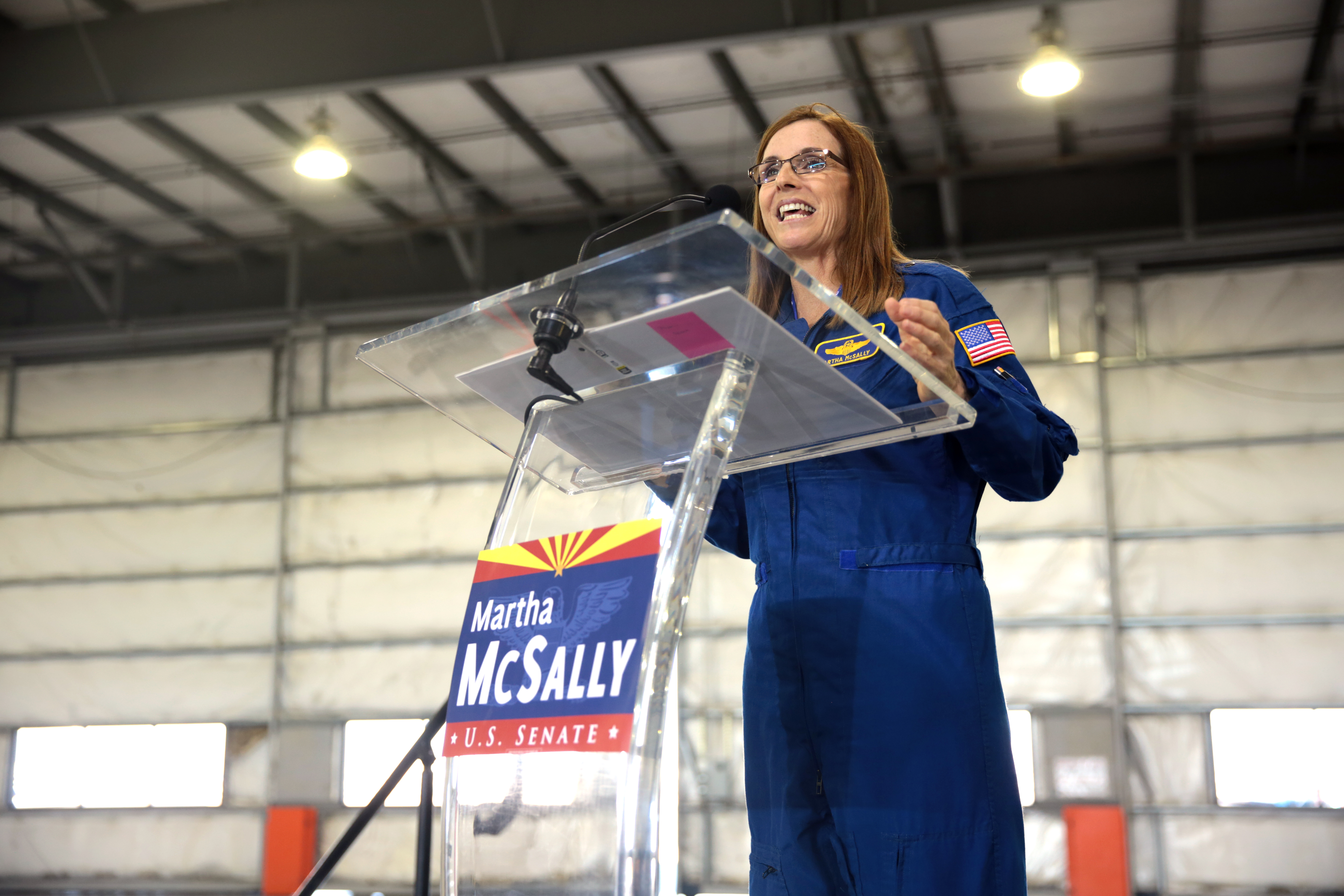 U.S. Congresswoman Martha McSally speaking with supporters at the announcement of her U.S. Senate campaign at the Swift Aviation Hangar in Phoenix, Arizona.